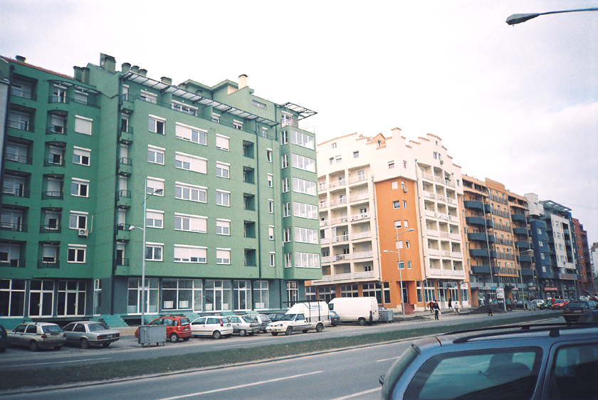 Image of Grbavica neighborhood in Novi Sad (self made)